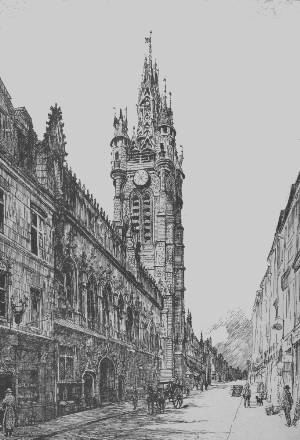 Douai – Belfry, 19th century engraving